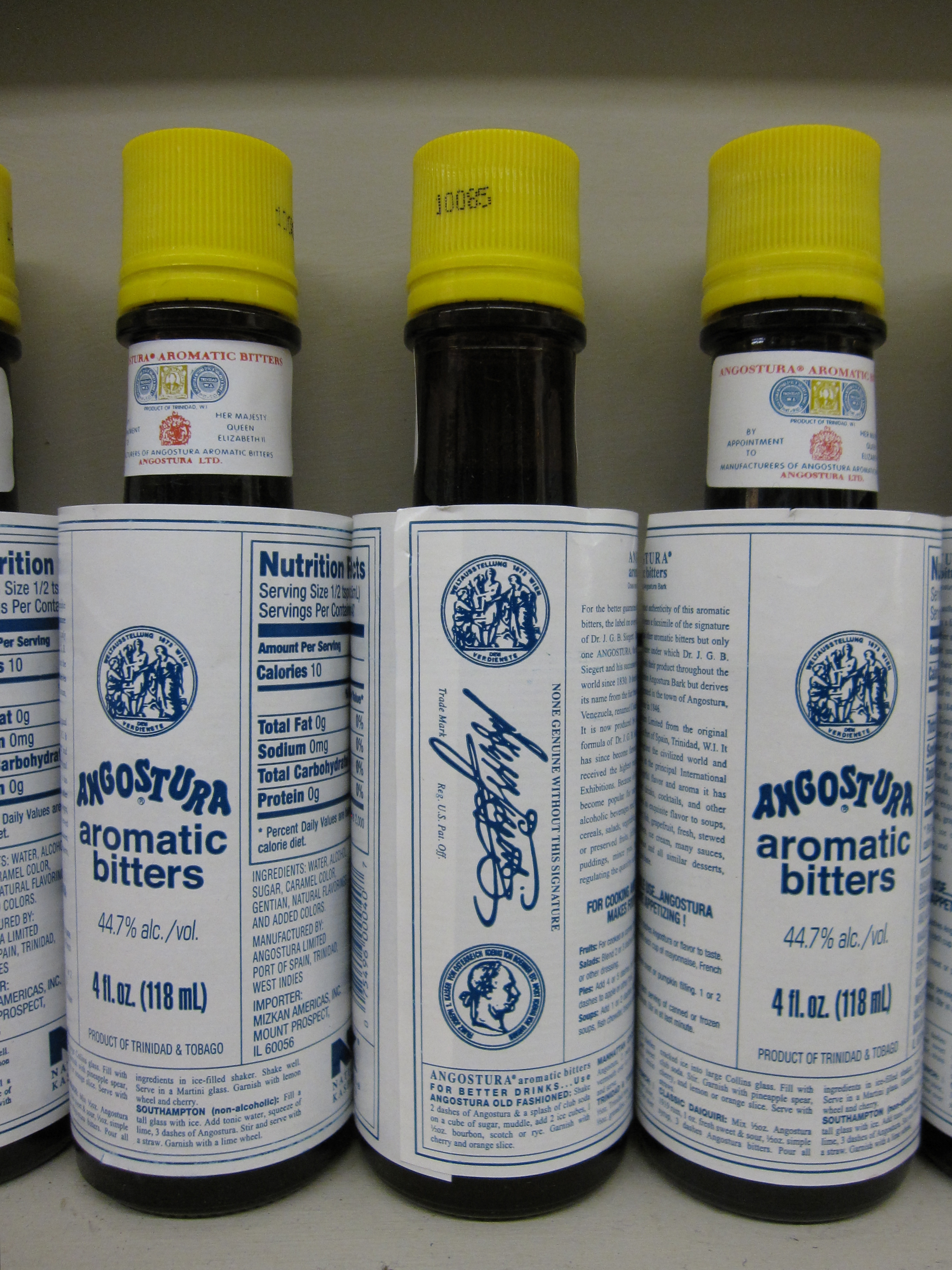 Angostura bitters on a shelf.